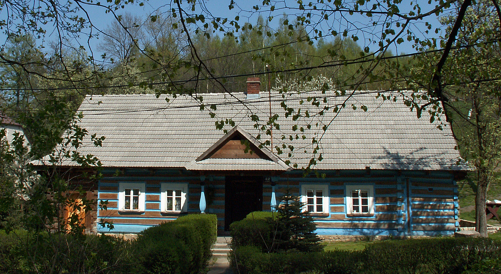 Old cottage, 42 Benedyktynska street, Tyniec, Krakow, Poland